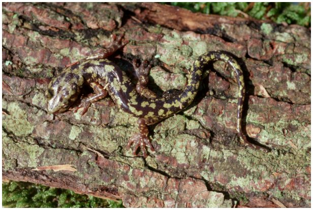 Green salamander (Aneides aeneus) Source: USGS